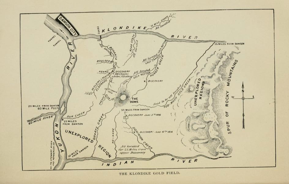 The Klondike Gold Field from the book "Klondike. The Chicago Record's book for gold seekers (1897)" p.14